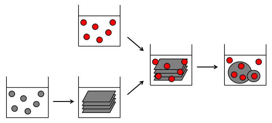 Steps during vesosome synthesis procedure.